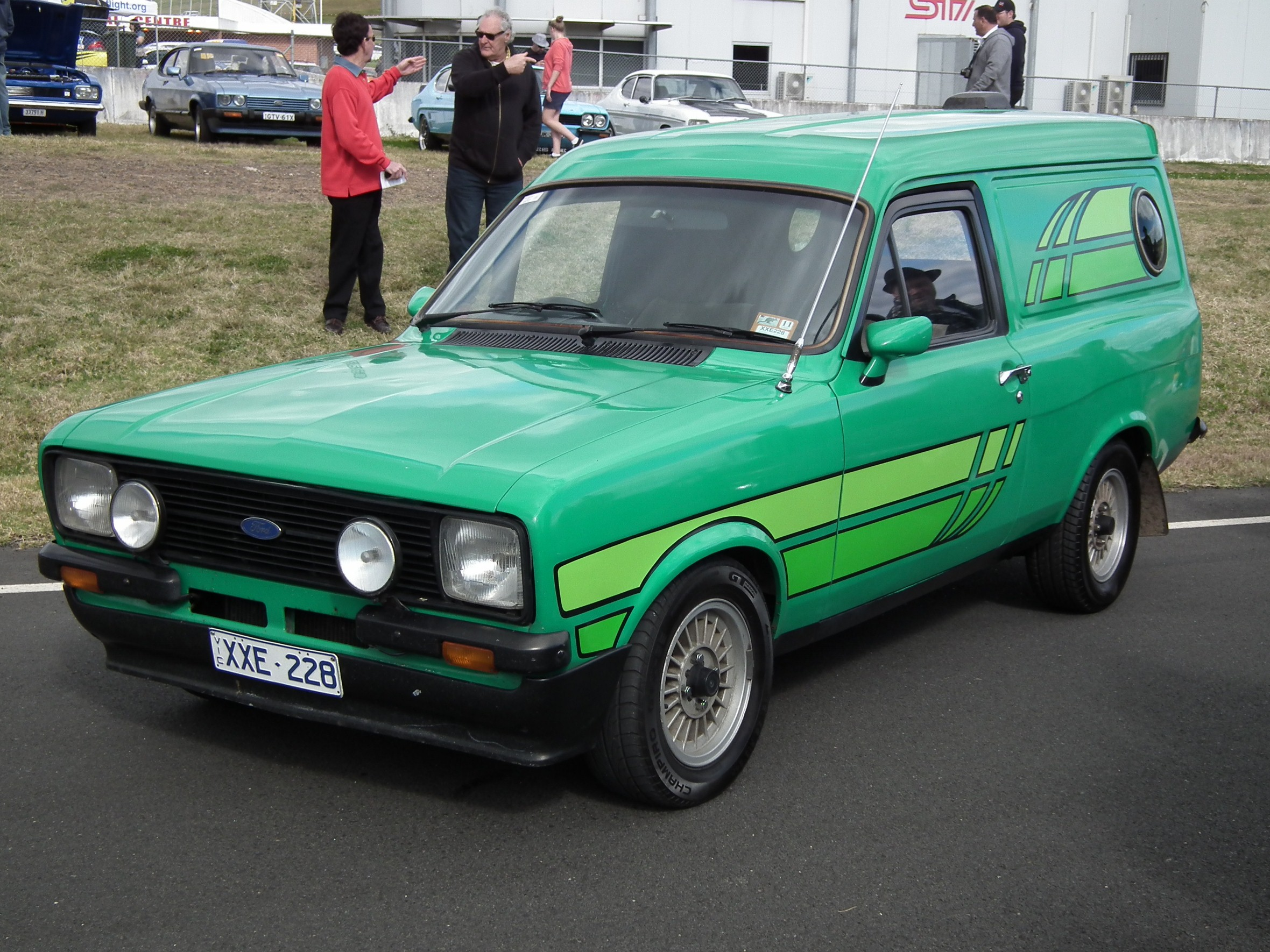 1978 Ford Escort (Mark II) Sundowner 2.0 panel van. Photographed at the 2012 New South Wales All Ford Day, held at Sydney Motorsport Park, Eastern Creek, New South Wales, Australia. Vehicle registration enquiry resultsJurisdictionVictoriaRegistrationXXE228Chassis codeCK8PUG70867REngine codeCK8PXL95962RCompliance date1978-12Year of manufacture1978